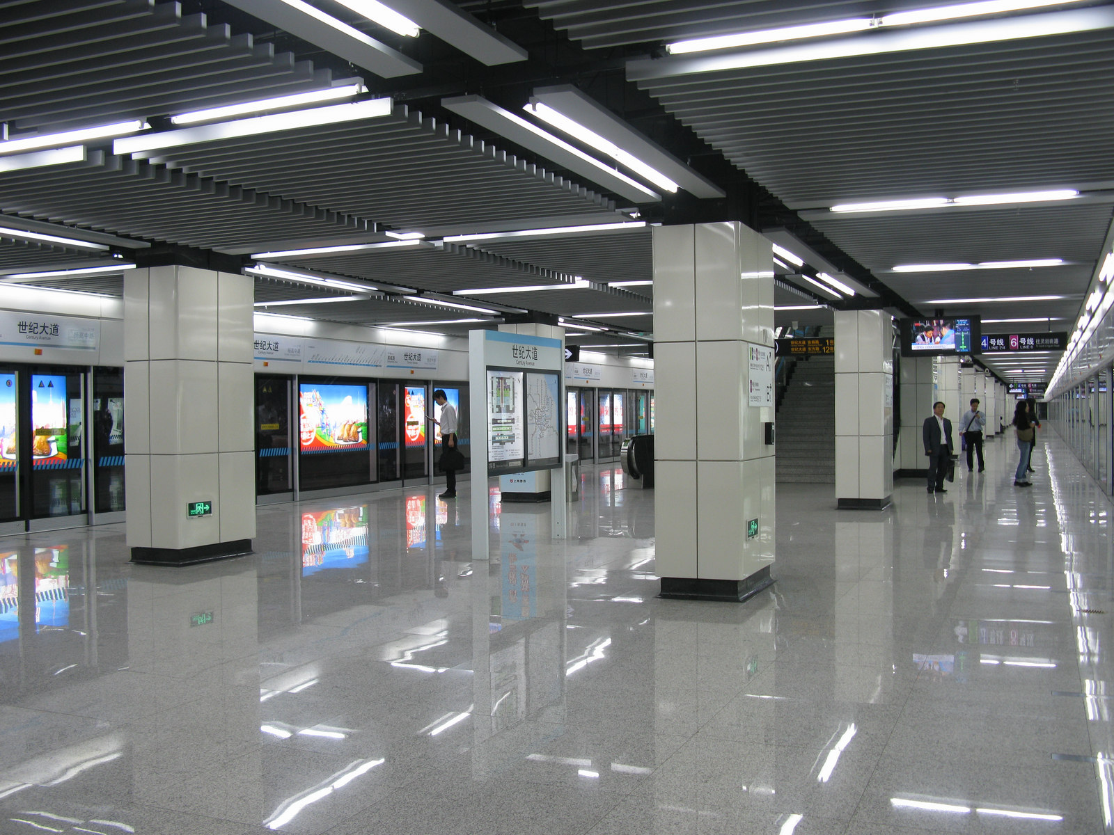 Line 9 Platform of Century Avenue Station, Shanghai Metro